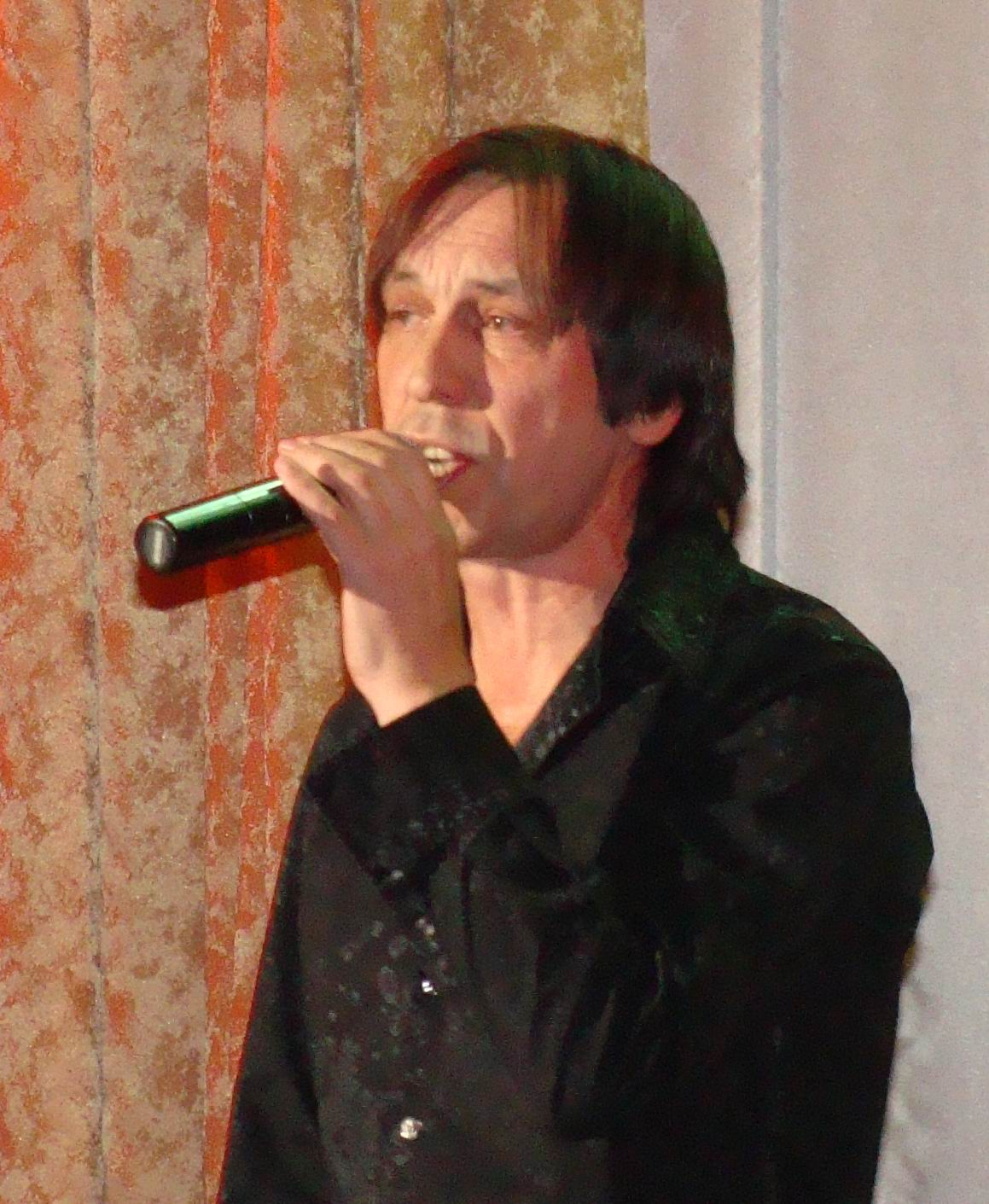 Nikolai Ivanovich Noskov ( born January 12, 1956, Gzhatsk) is a Russian singer and a former vocalist of the hard rock band Gorky Park.